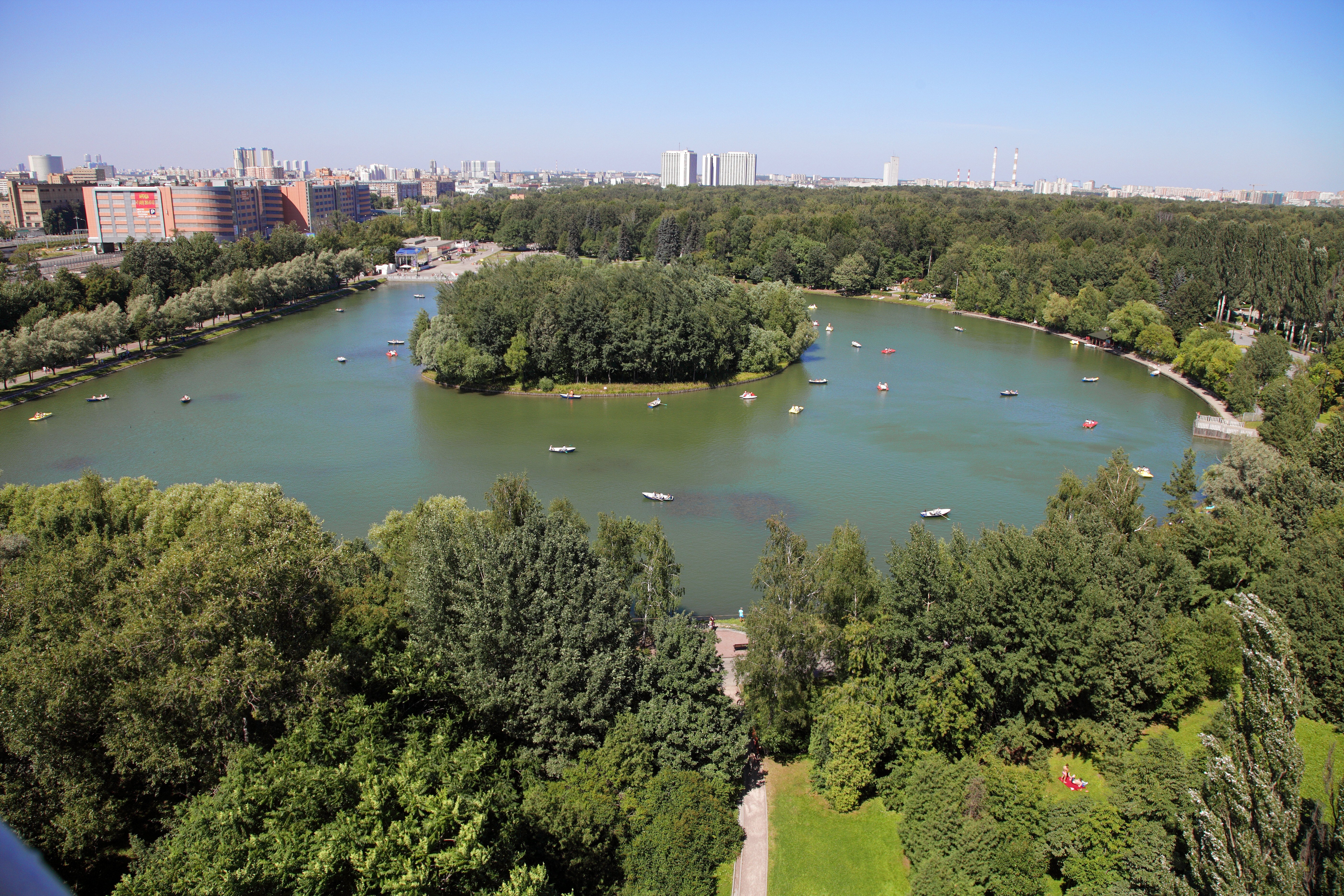 Round pond, Moscow